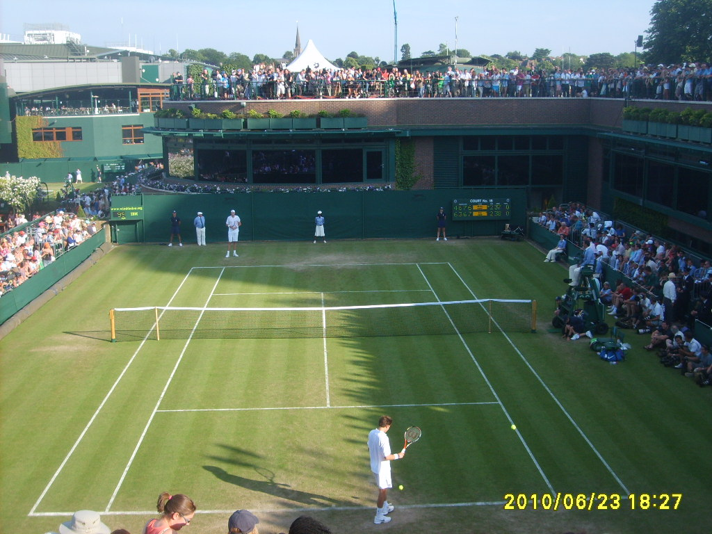 Mahut ready to serve during the second day versus of his match versus Isner, Wimbledon 2010.